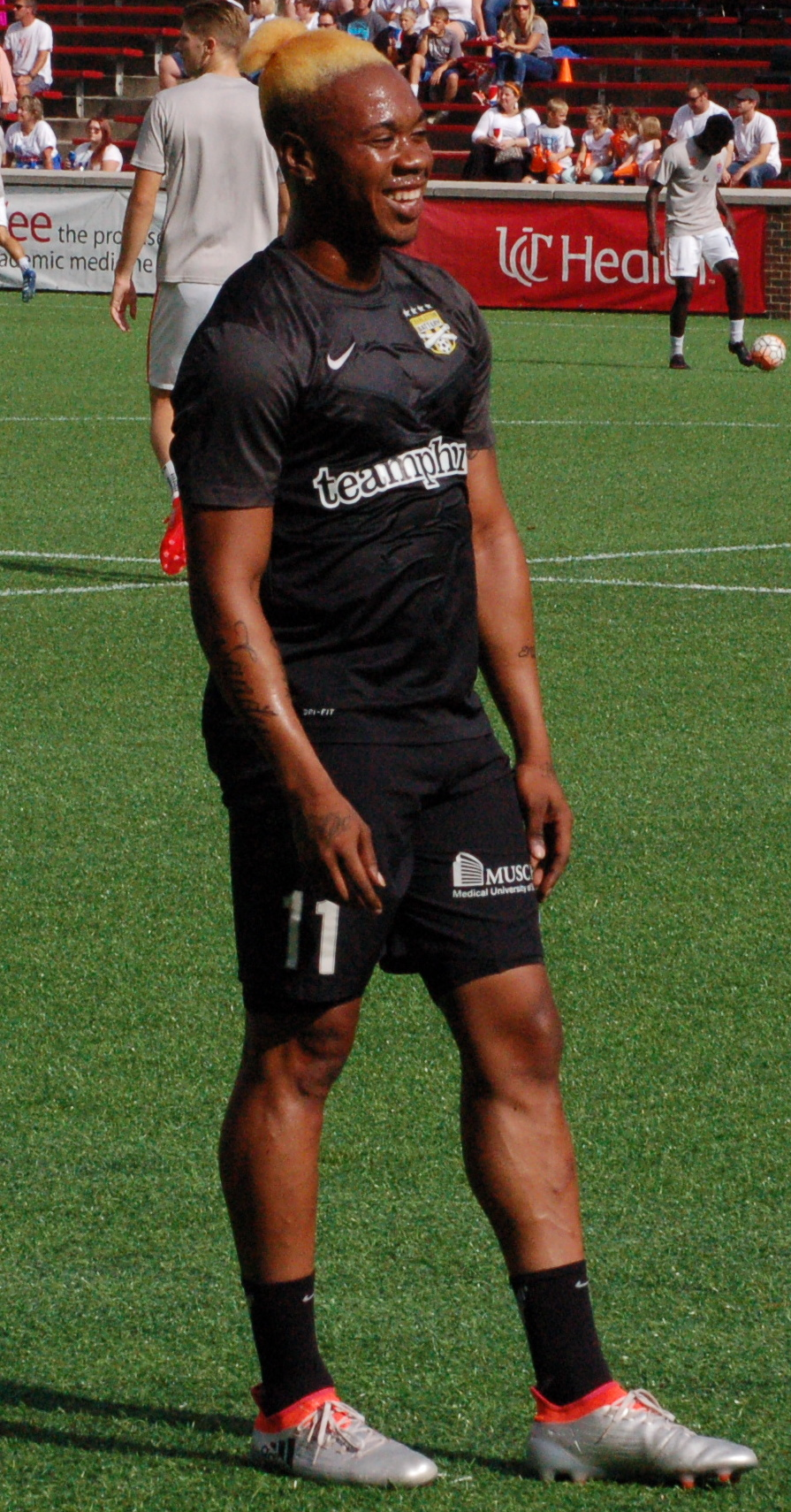 Quinton Griffith Taken during a 2016 USL Playoffs Eastern Conference Quarterfinals match between FC Cincinnati and Charleston Battery at Nippert Stadium in Cincinnati on October 2, 2016.